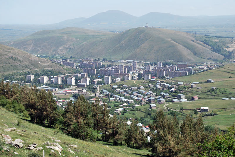 Hrazdan city in Armenia